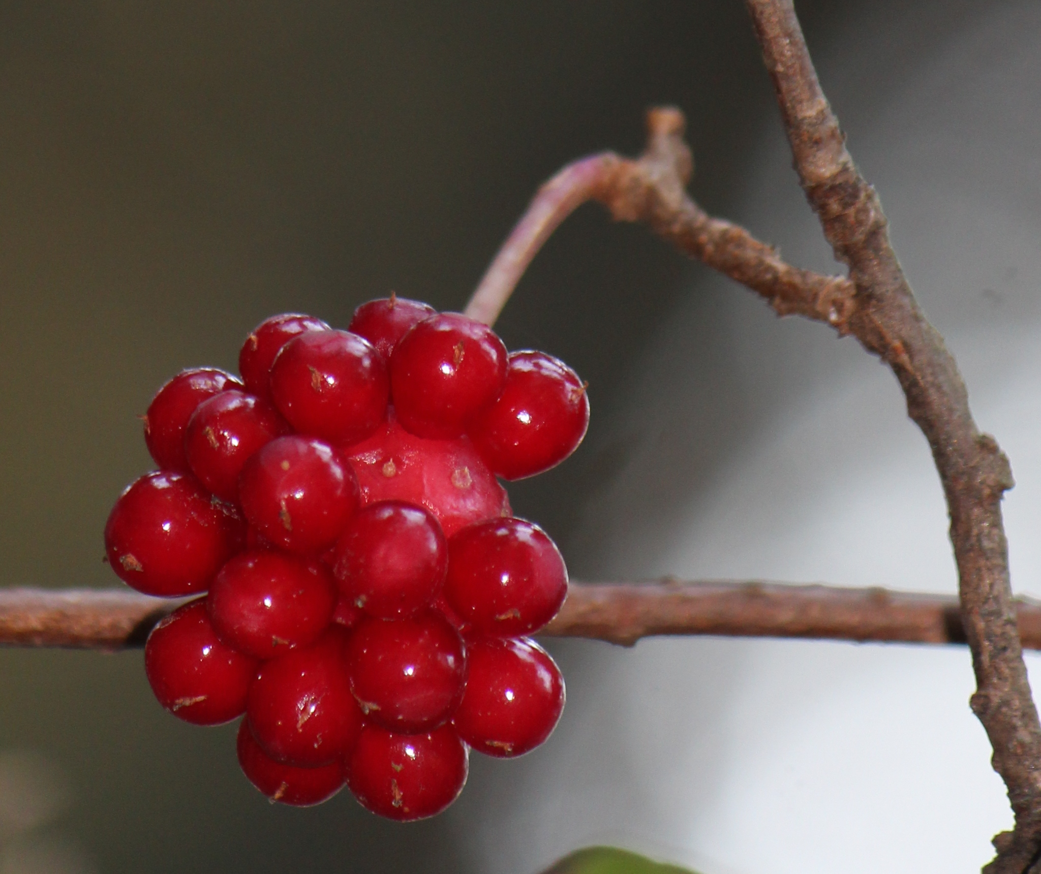 Fruits of Kadsura japonica (L.) Dunal, in Aichi prefecture, Japan.